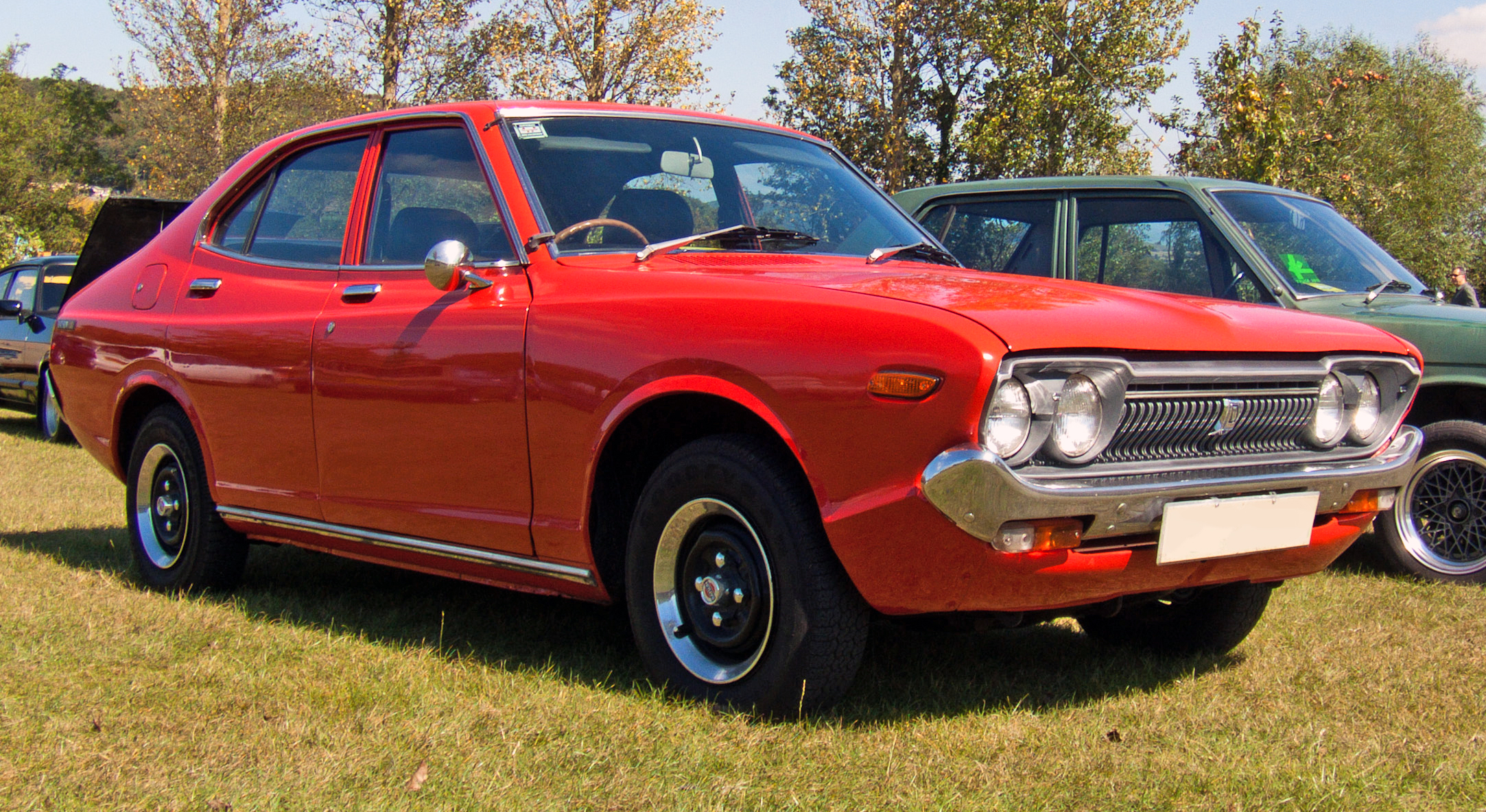 1974 Datsun Violet 140J, 710 series (1428cc)